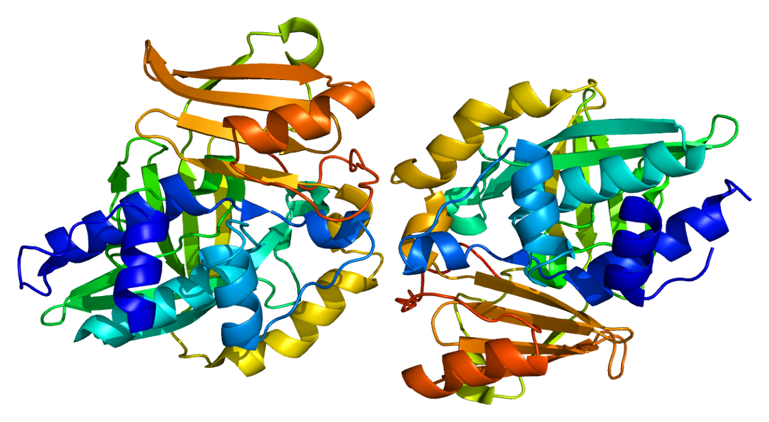 Structure of the NAT2 protein. Based on PyMOL rendering of PDB 2pfr.